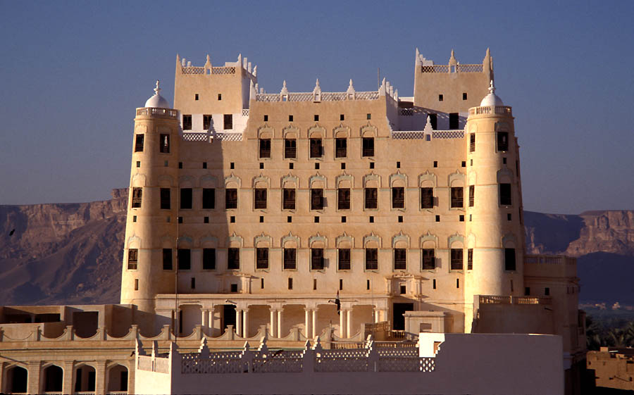 The Sultan Al Kathiri Palace built in 1920s serves as the most prominent landmark of Seiyun, the principle town in Wadi Hadhramaut, Yemen.